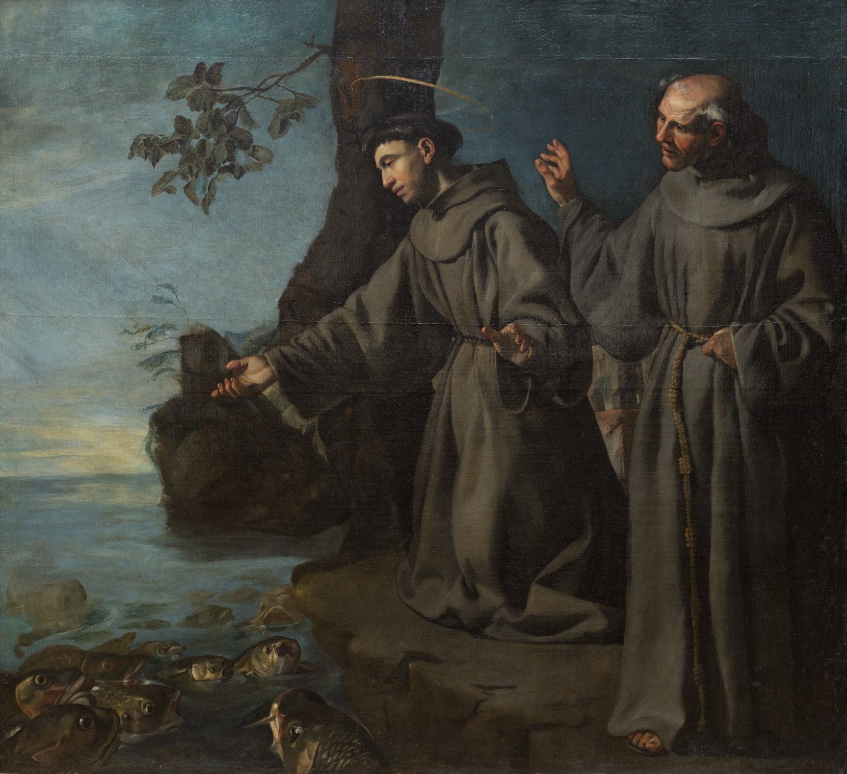 "St. Anthony Preaching to the Fishes", c. 1630 attributed to Francisco de Herrera the Elder. In the Detroit Institute of Arts, and originally made for the Convent of San Antonio de Padua in Seville.